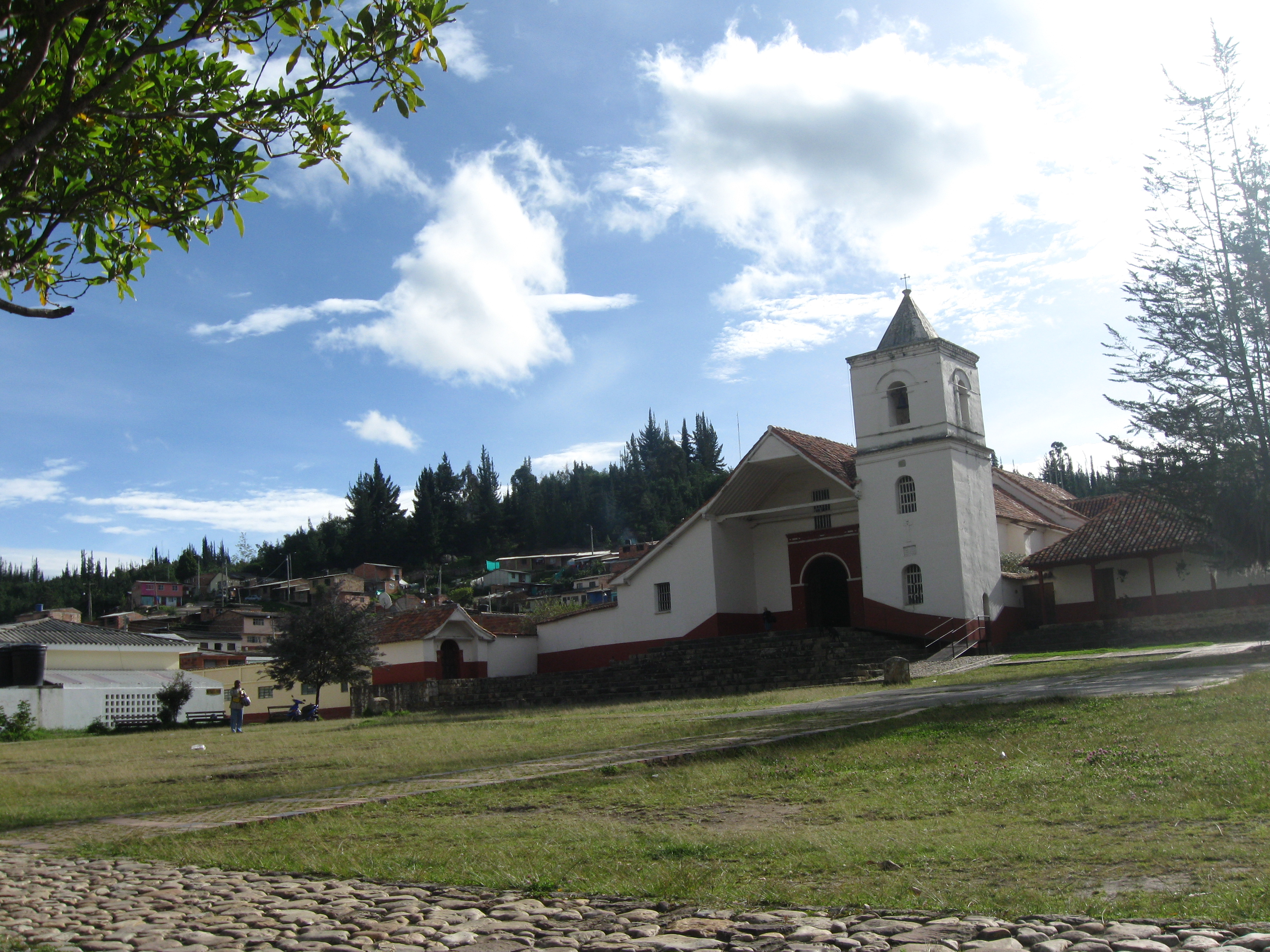 Sutatausa Church (Cundinamarca )